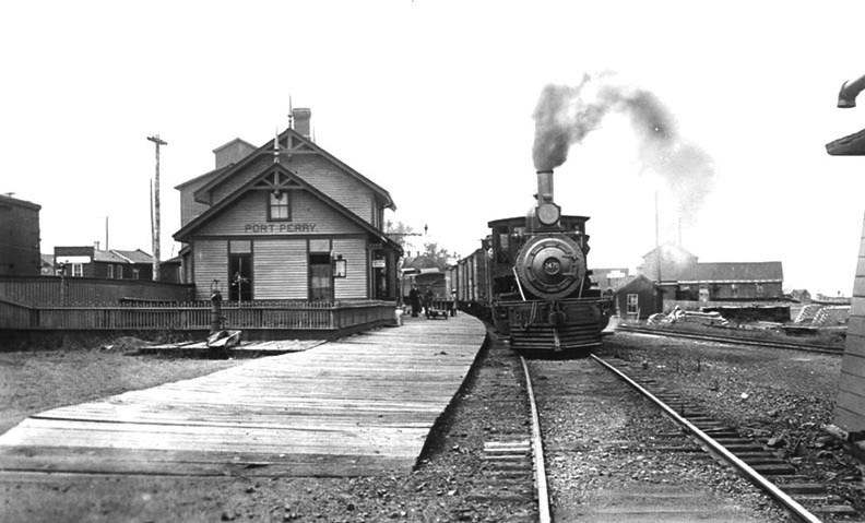 One of the best known images of the Port Perry train station, looking almost due north some time in 1912. A train can be seen approaching the camera's location on the former mainline of the Port Whitby and Port Perry Railway. Visible just to the right is the new mainline, which leads past the town and north-east to Lindsay. The grain elevator can be seen rising above the station, just to the left. Lake Scugog is just visible on the extreme right.